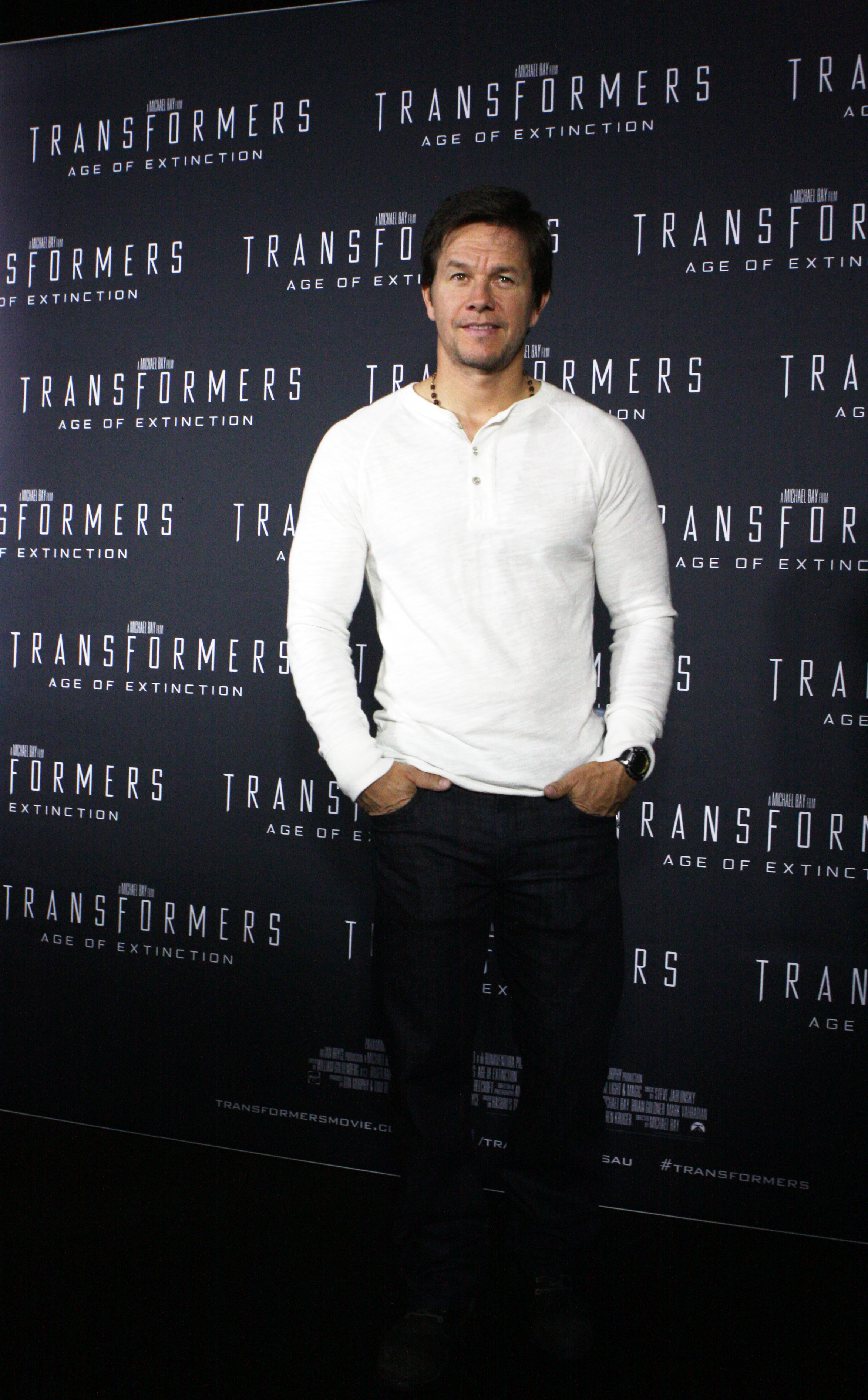 Wahlberg at the Australian premiere of "Transformers: Age of Extinction"